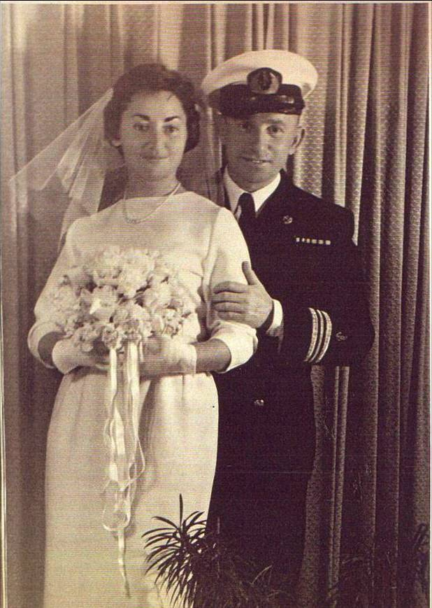 Edmond Wilhelm Brillant Israeli Navy Officer With his wife Rosita Segal